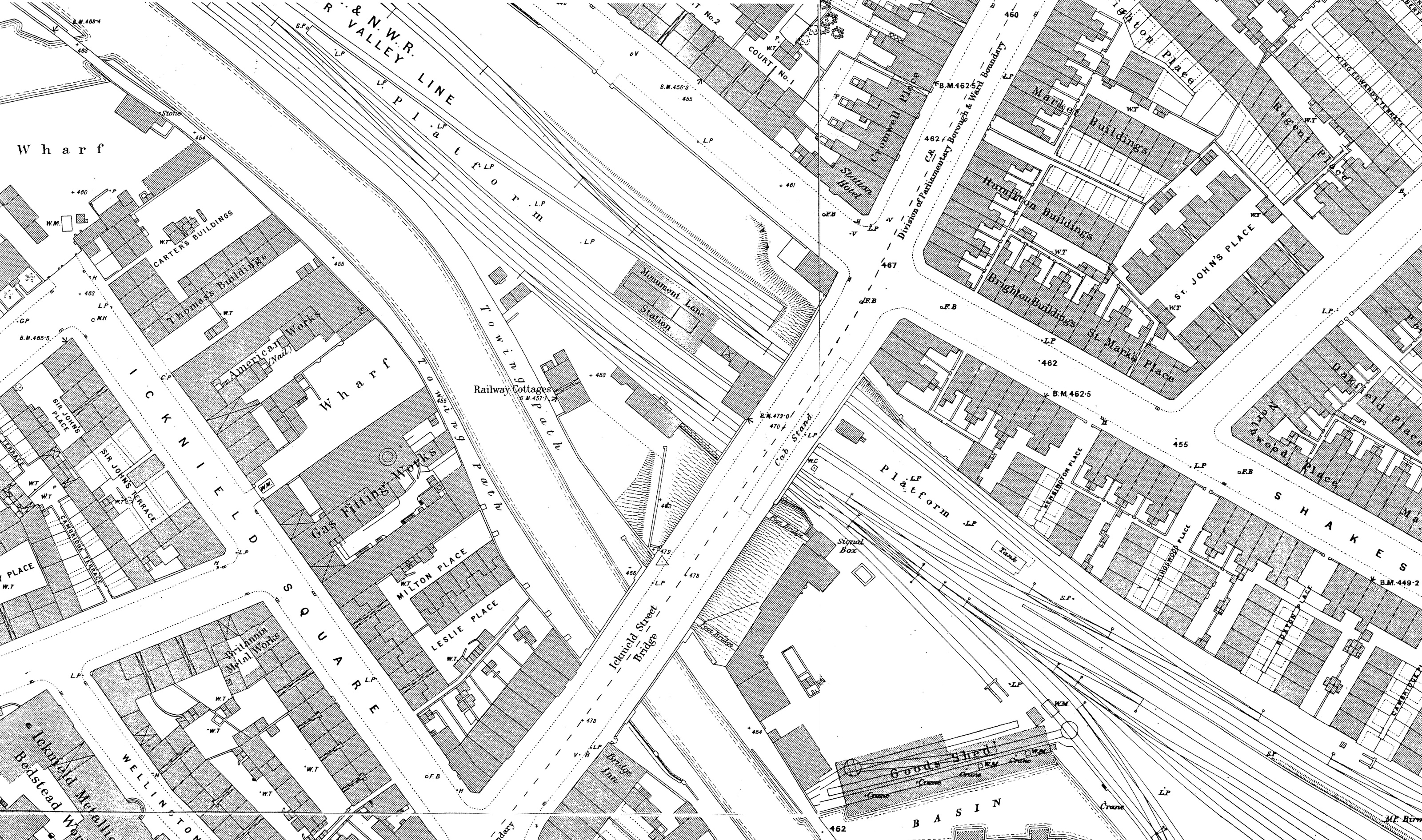 Old Ordnance Survey map showing Monument Lane railway station (now closed and dismantled) on the Stour Valley Line in Birmingham, England. It was the nearest station to Birmingham New Street. Running approximately parallel to the railway is the BCN Main Line canal. The road crossing both rail and canal was Icknield Street / Monument Lane (Monument Road). These have been widened and are today the A4540 Ladywood Middeway. (This is a composite of two 1:500 maps: left half surveyed 1886, published 1888; right half surveyed 1887, published 1889)